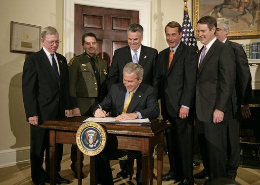 President Bush Signs Secure Fence Act President George W. Bush signs H.R. 6061, the Secure Fence Act of 2006, in the Roosevelt Room Thursday, Oct. 26, 2006. Pictured with the President are, from left: Commissioner Ralph Basham of U.S. Customs and Border Protection; Chief David Aguilar of U.S. Customs and Border Protection; Congressman Peter King, R-N.Y.; Congressman John Boehner, R-Ohio; and Deputy Secretary Michael Jackson of the Department of Homeland Security; and Senator Bill Frist, R-Tenn. White House photo by Kimberlee Hewitt